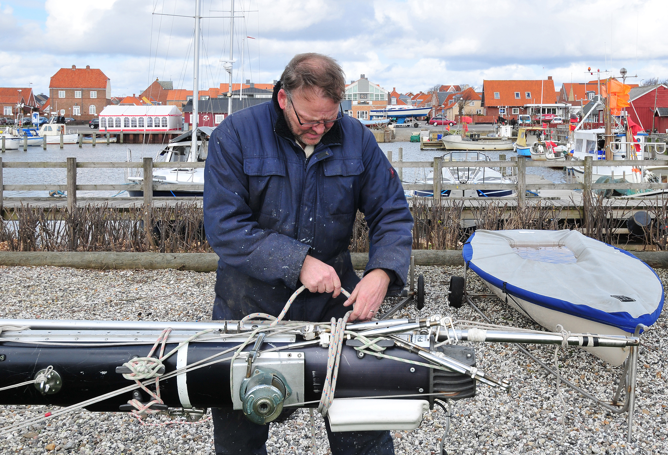 Dockworker in the harbour by Ringkøbing, Jutland, Denmark.